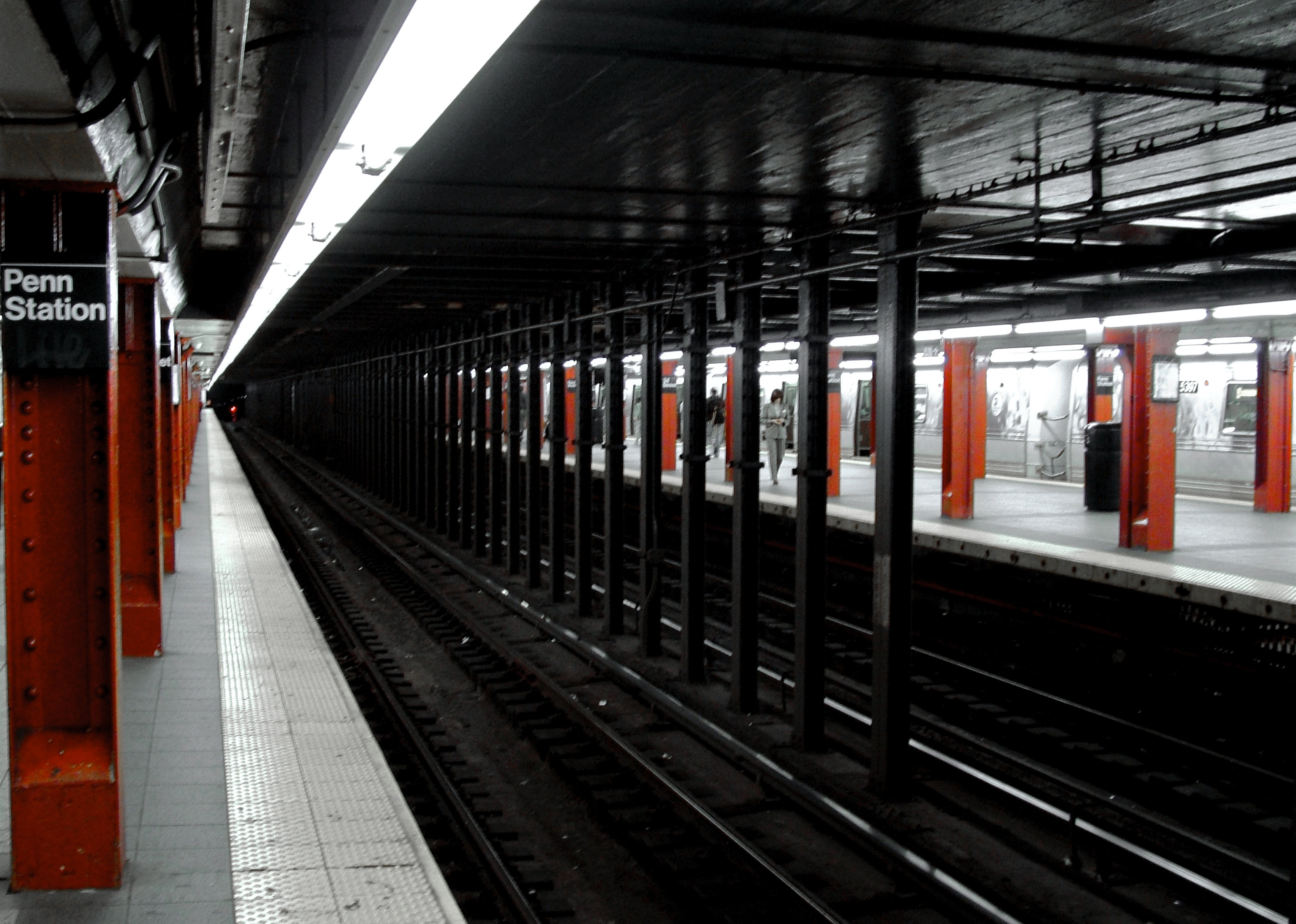 34 Street–Penn Station station at the IND Eighth Avenue Line. There are two side and one center platform serving all four tracks. However, local trains stop at the sides, whereas both express tracks are sharing the center platform. This was done to discourage cross-platform transfer because passenger volume here is the fifth highest all over the system.